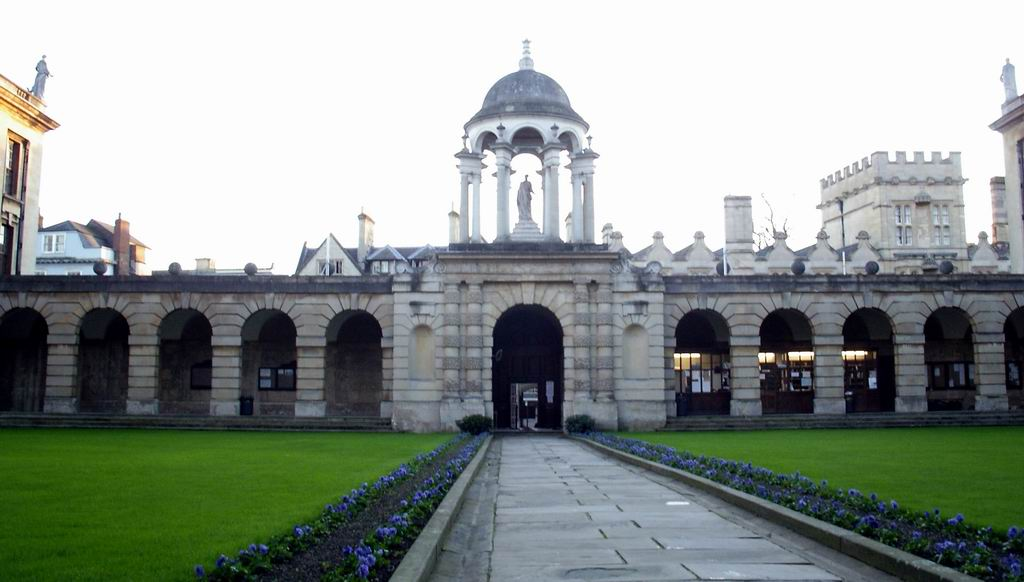 Picture of Queen's College, England. Took picture myself